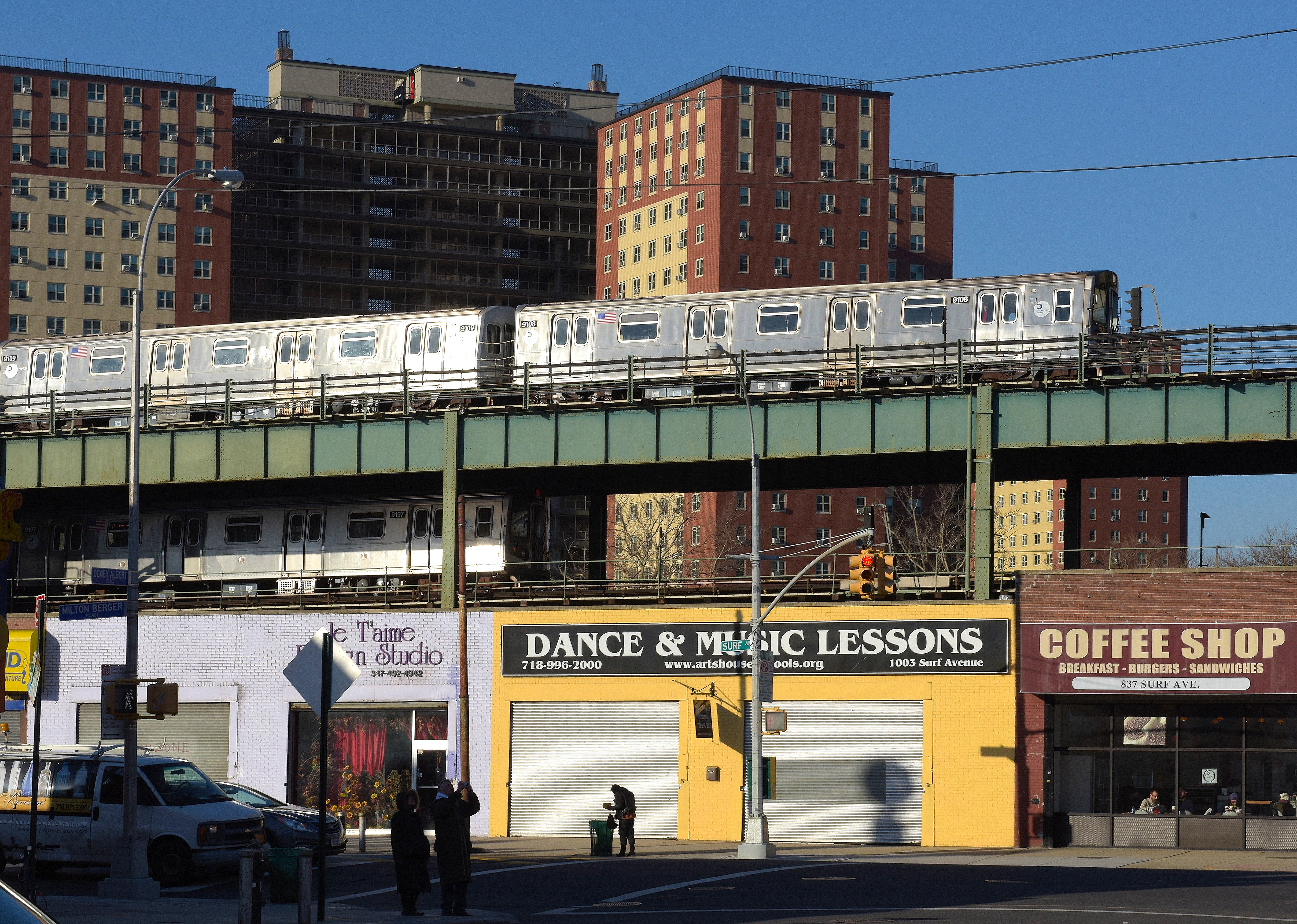 January 1, 2015 Coney Island Brooklyn, NY Double level of trains departing along Surf Avenue.